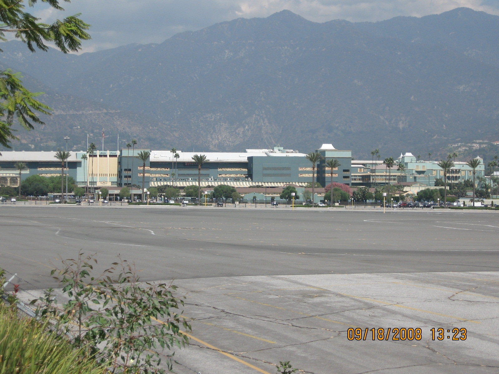 Sanata Anita Park Racetreck in Arcadia California with San Gabirel Mountain in background